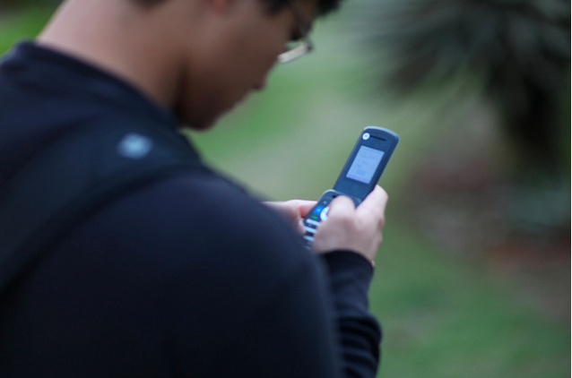 Picture of mobile phone user